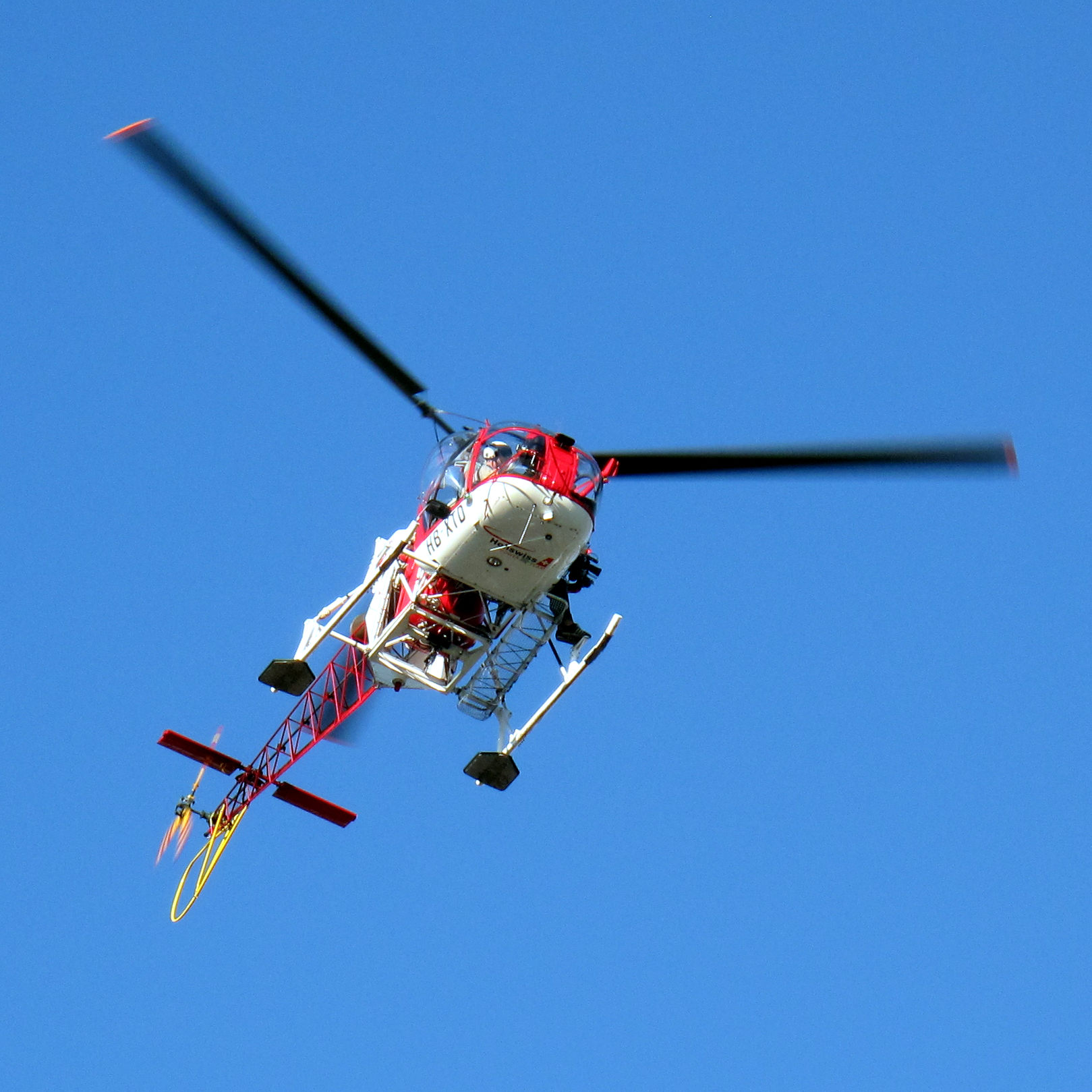 SA315B Lama HB-XTD of Heliswiss